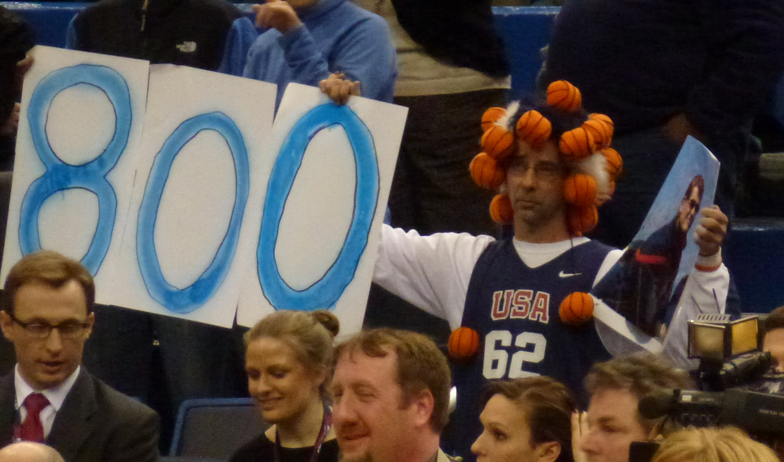 On 6 March, The Connecticut Huskies women's basketball team played against Notre Dame in the finals of the Big East Tournament. UConn won the game, and the game represented the 800th win of UConn coach Geno Auriemma's career. Fan Danny Karwoski is holding a picture of Auriemma and a sign noting the milestone. A picture of Danny and the sign taken by ESPN was the feature picture on their website when announcing the game results. Auriemma reached 800 victories in fewer games than any other coach in NCAA history